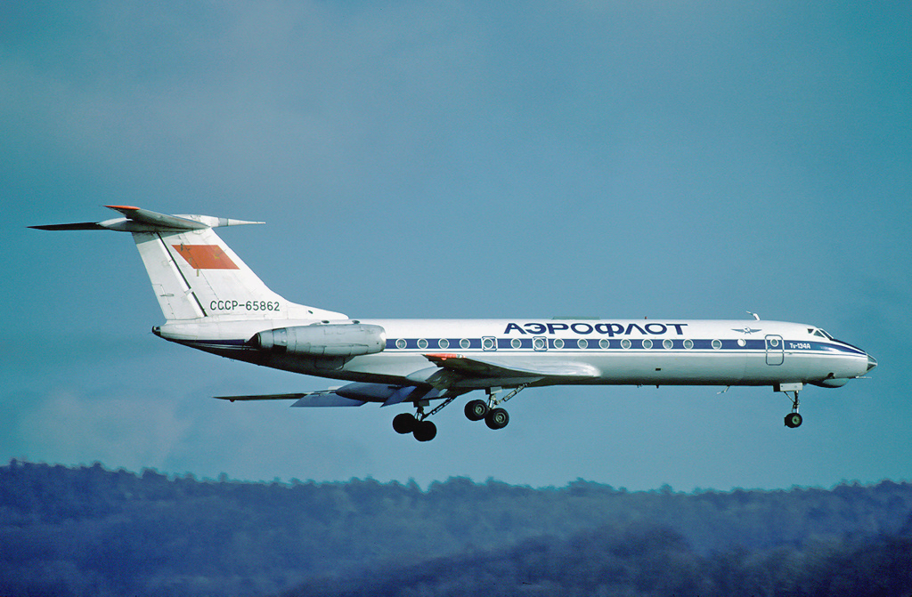 An Aeroflot Tupolev Tu-134A at Zurich International Airport (ZRH / LSZH)